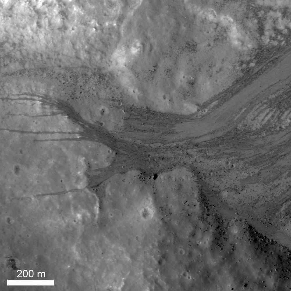 This image shows the lower part of the northeast inner wall of the Kepler impact crater. Loose material is sliding down the inner crater from near the rim crest (upper right) and ponding on a part of the crater floor. LROC NAC M104755664L [NASA/GSFC/Arizona State University].